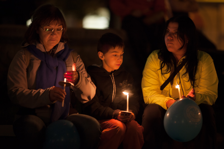 by Thien V.